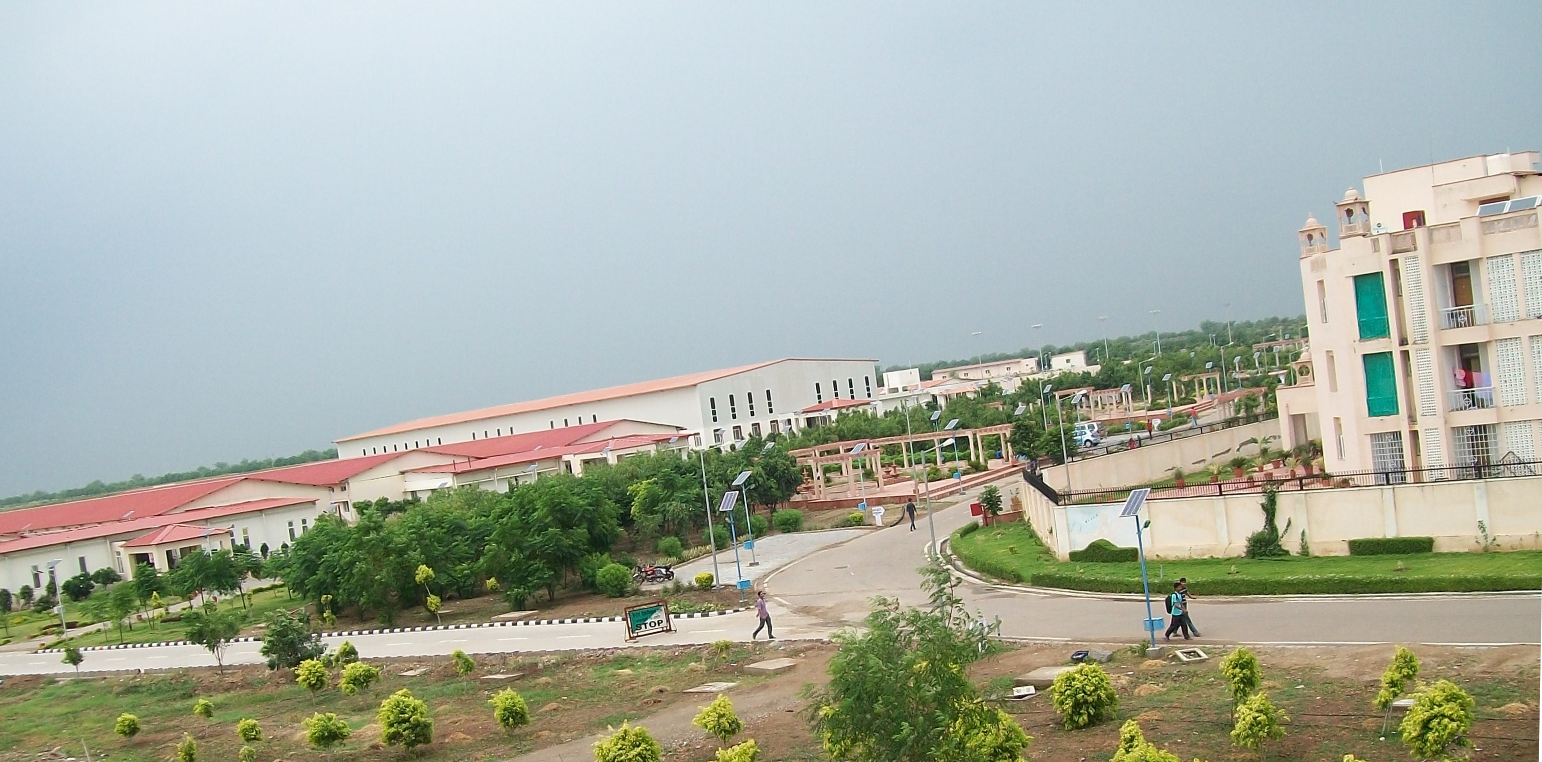 View of campus from boys hostel